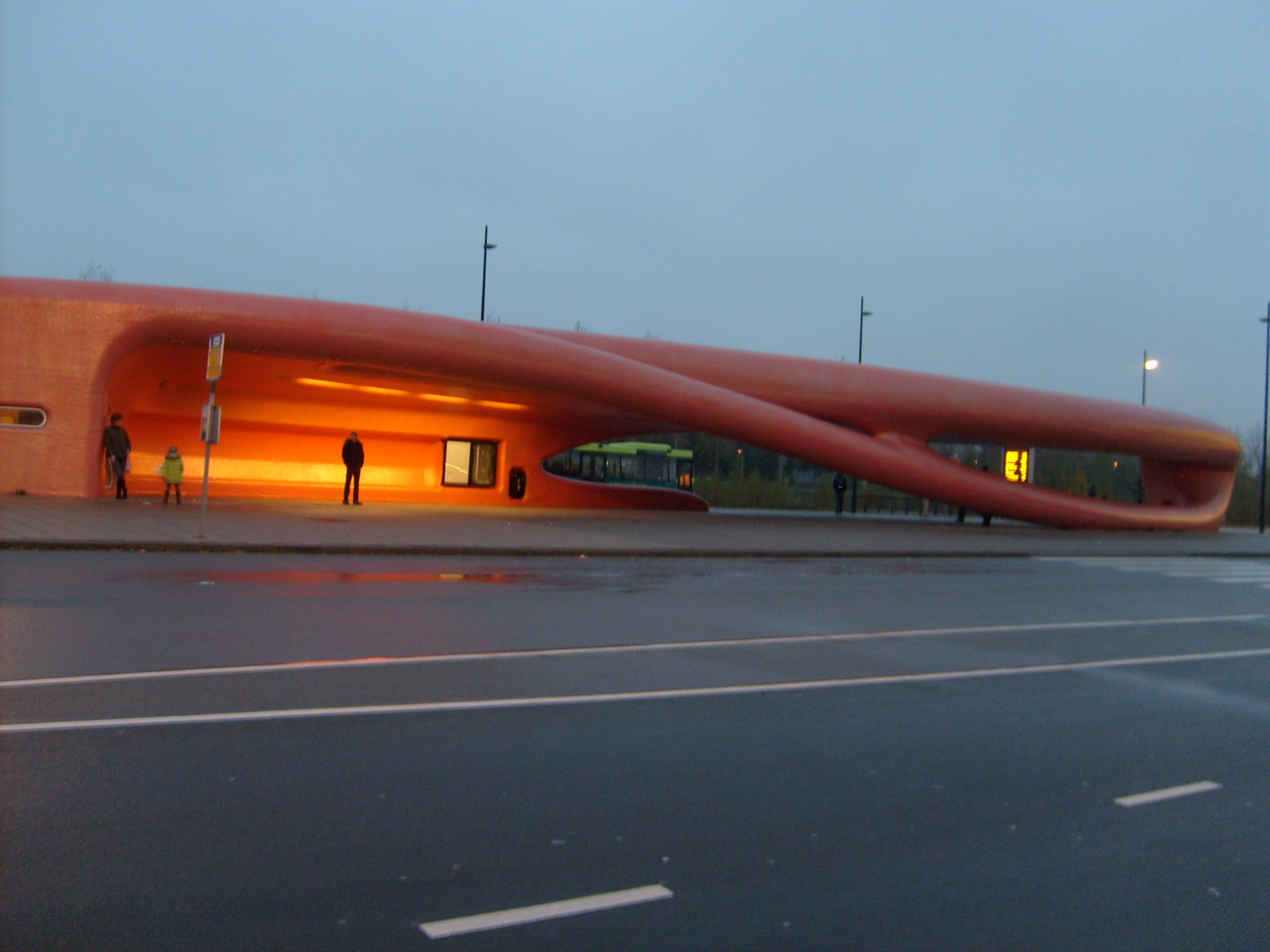 Artwork 'De Zwerfkei', Hoofddorp, The Netherlands